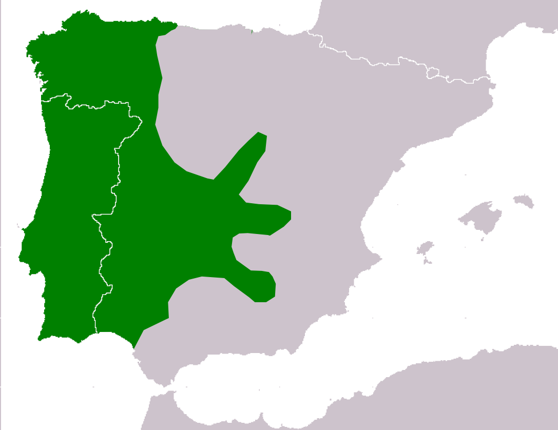 Lissotriton boscai distribution map.